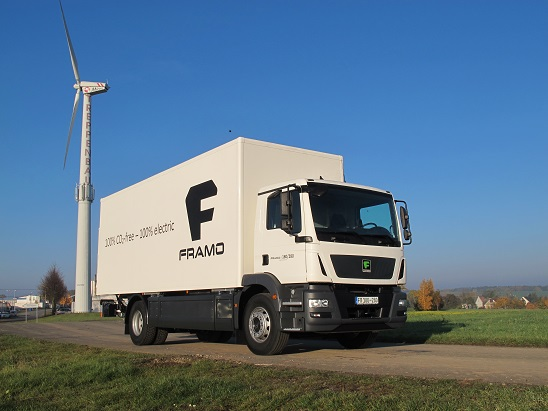 The first heavy truck of FRAMO